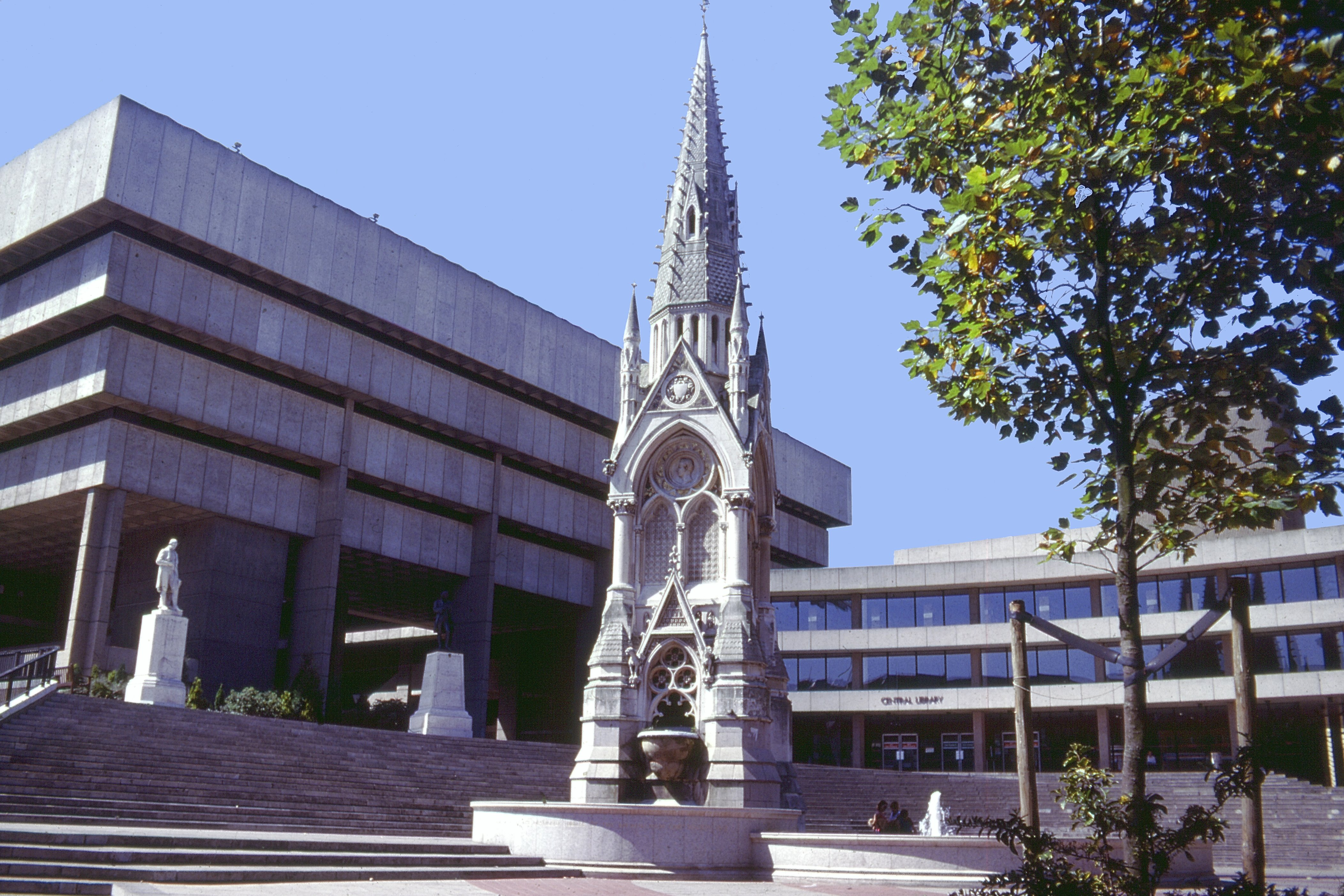 Birmingham Central Library, Chamberlain Square and the Chamberlain Fountain on 14 August 1983